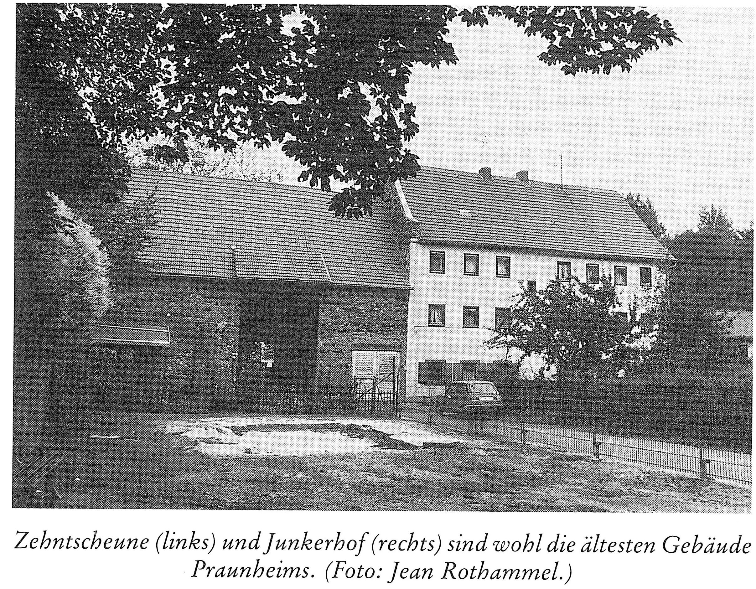 [Tithe barn] (left) and Junkerhof (right) are probably the oldest building Praunheim